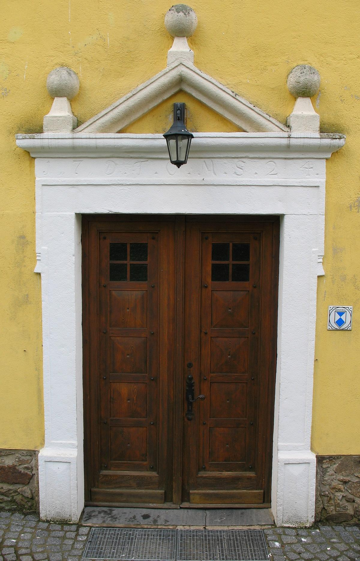 Grünstädtel church, southern portal.